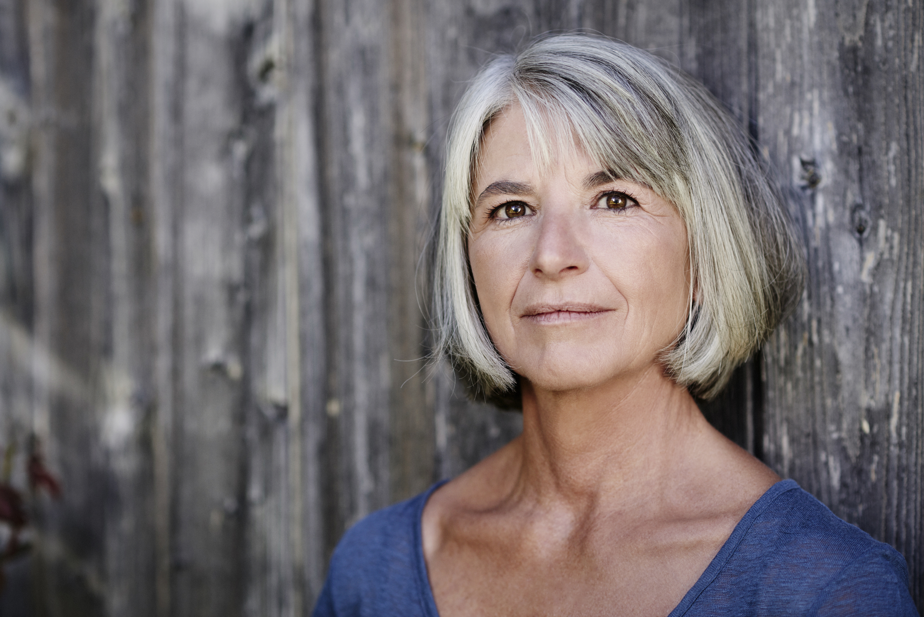 Monika Well